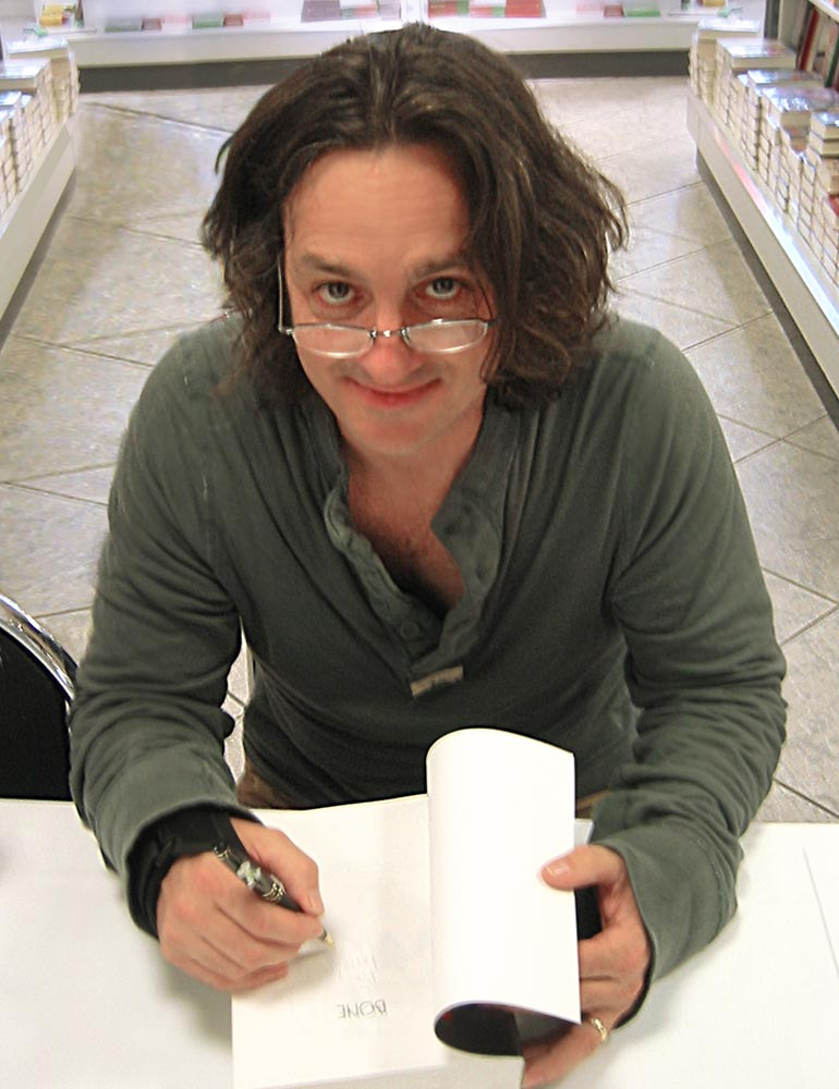 Photo of cartoonist Jeff Smith at a book signing in Hamburg, Germany, on October 10, 2006, during his 2006–2007 Bone World Tour.